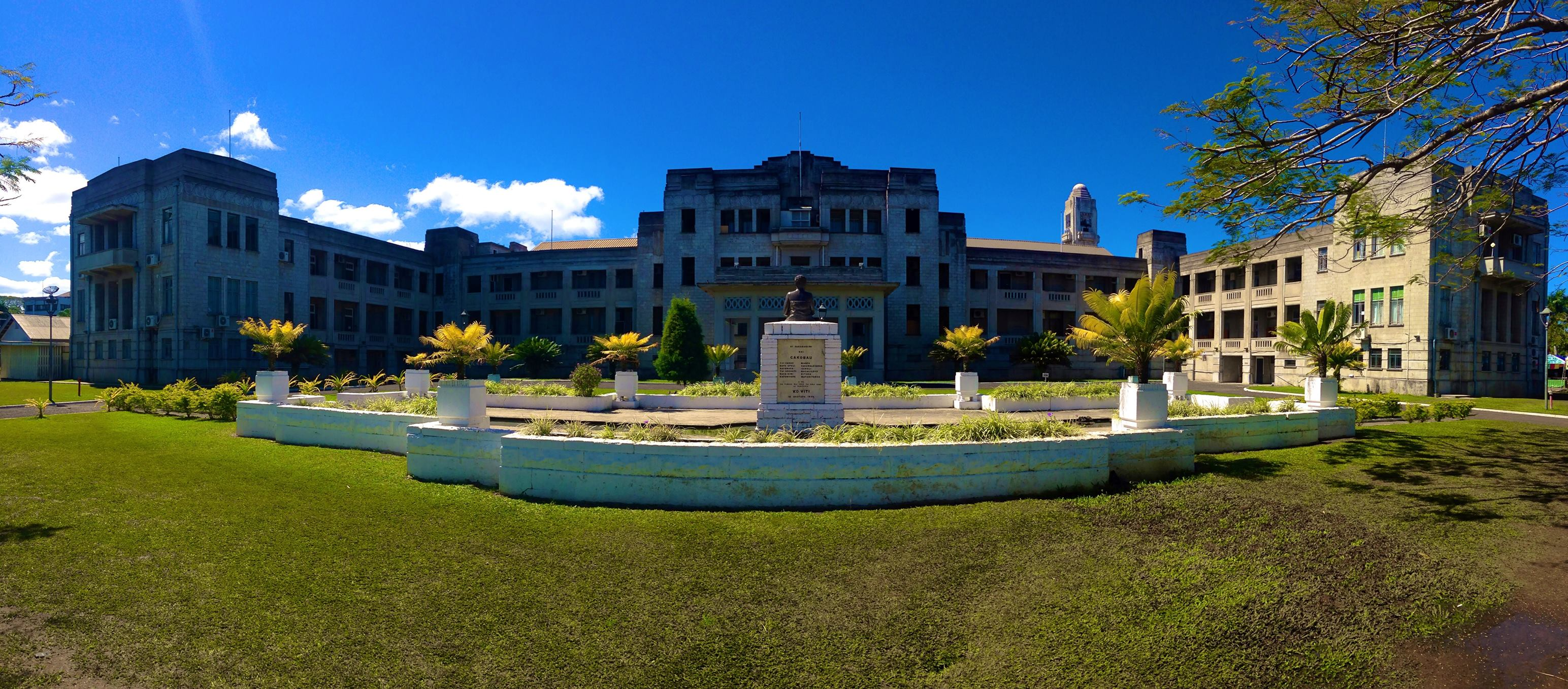 The Government Buildings in Suva Fiji , the next home to the Fiji Parliament after the elections..